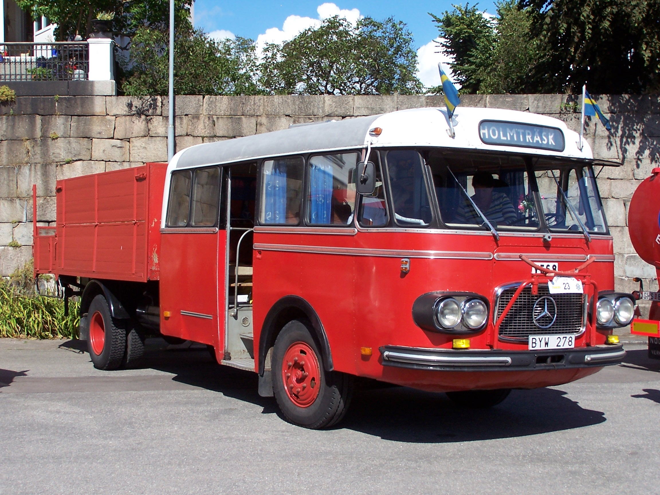 Mercedes-Benz LPO 322 (year 1965).